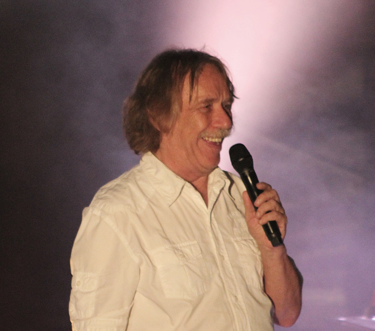 Jaromír Nohavica, concert Ostrawa-Poruba